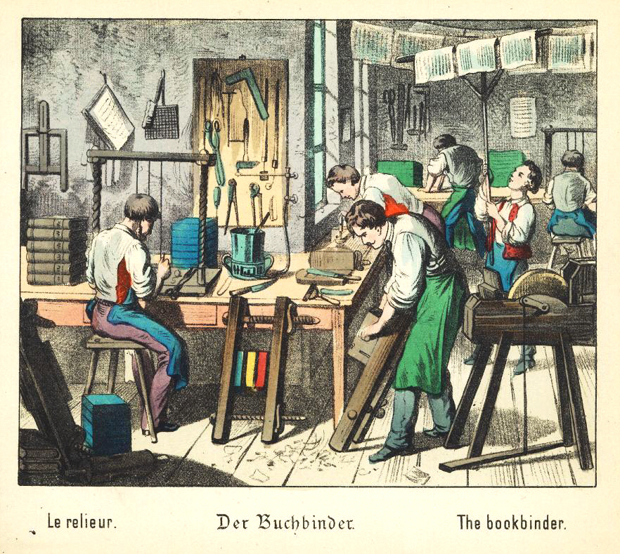 The bookbinder